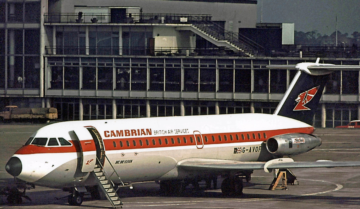 BAC 1-11 of Cambrian Airways at Manchester Airport